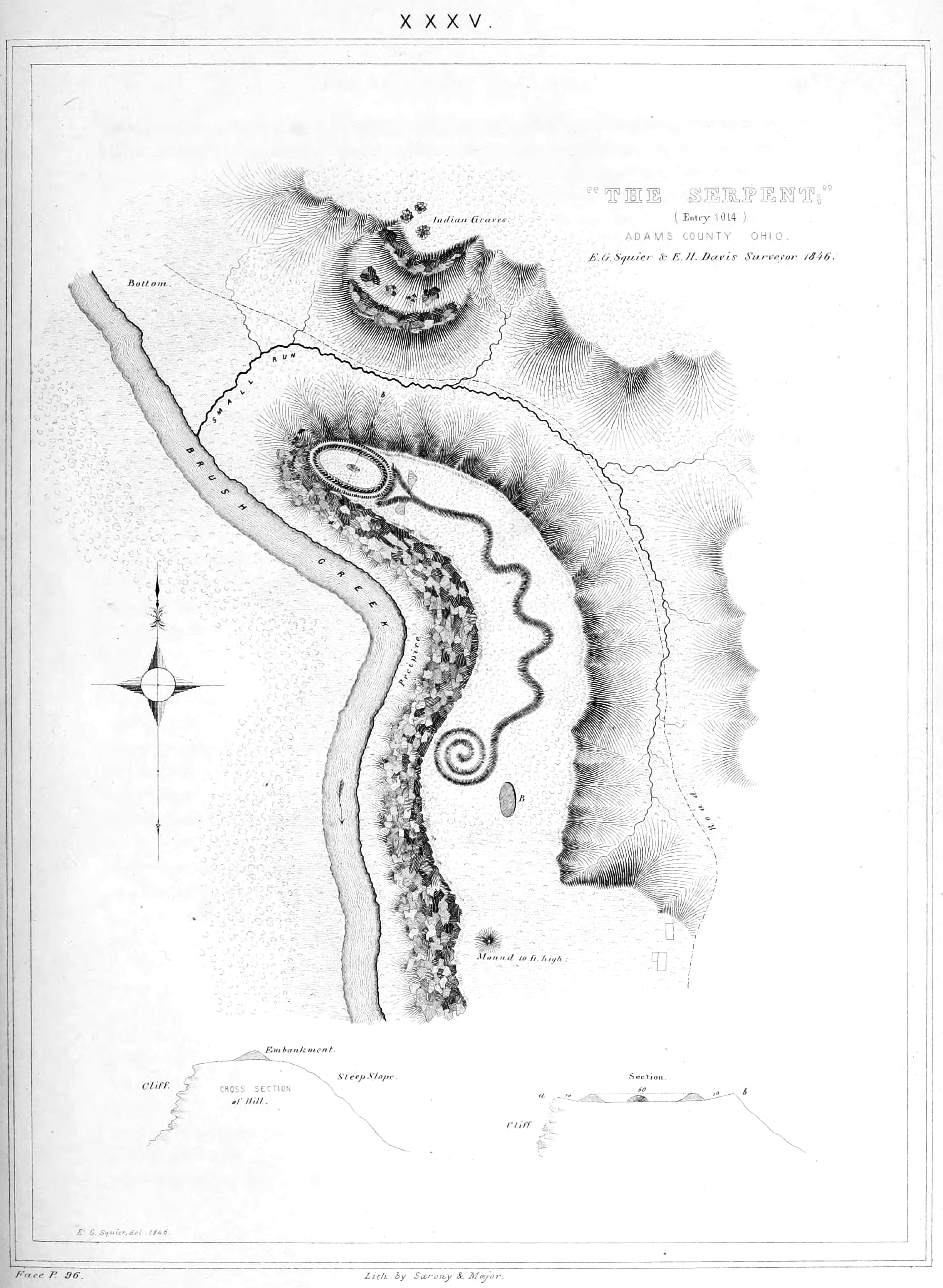 Plate XXXV from Ancient Monuments of the Mississippi Valley. Great Serpent in Adams County, Ohio.